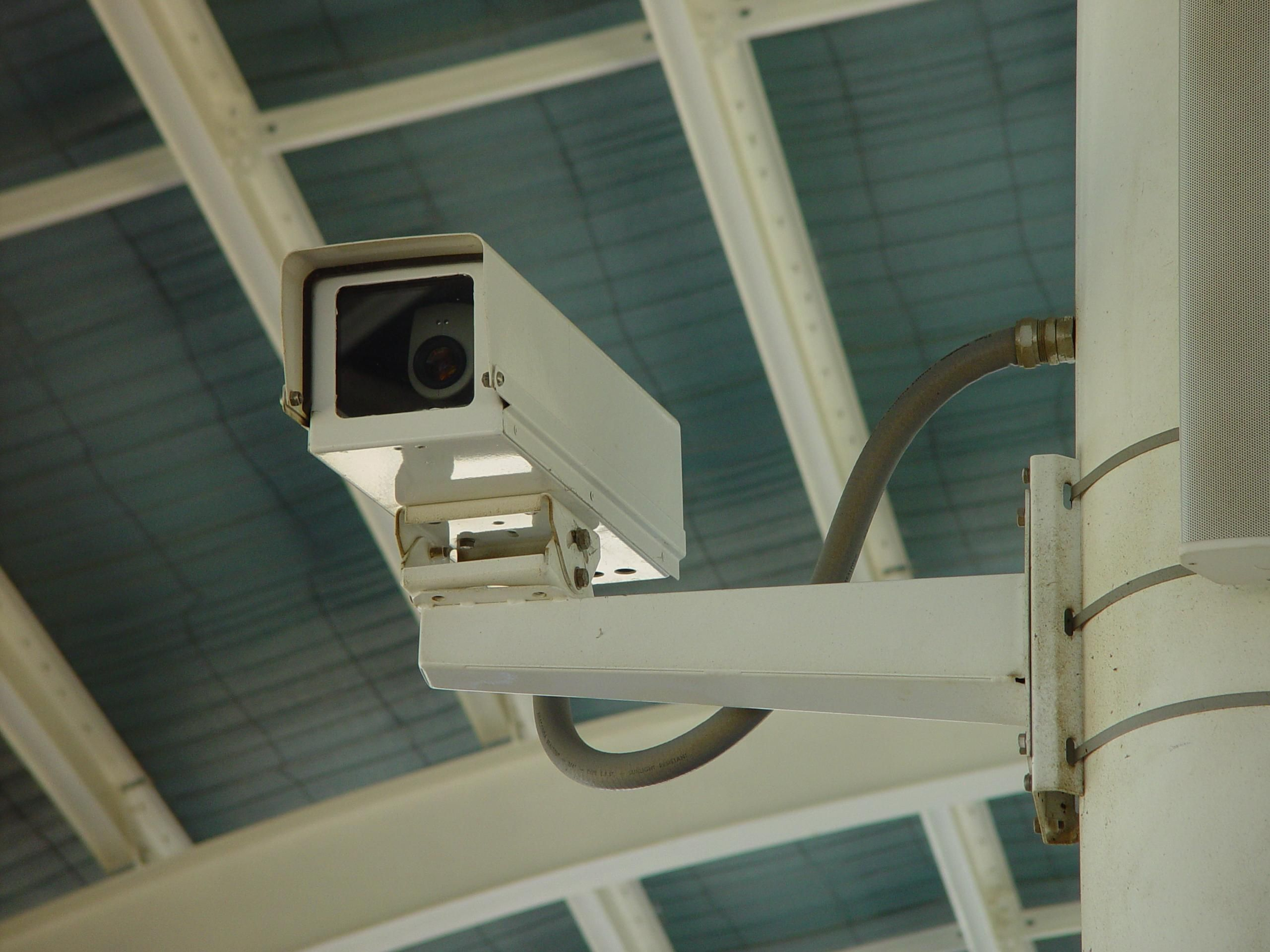 Image title: Security camera Image from Public domain images website